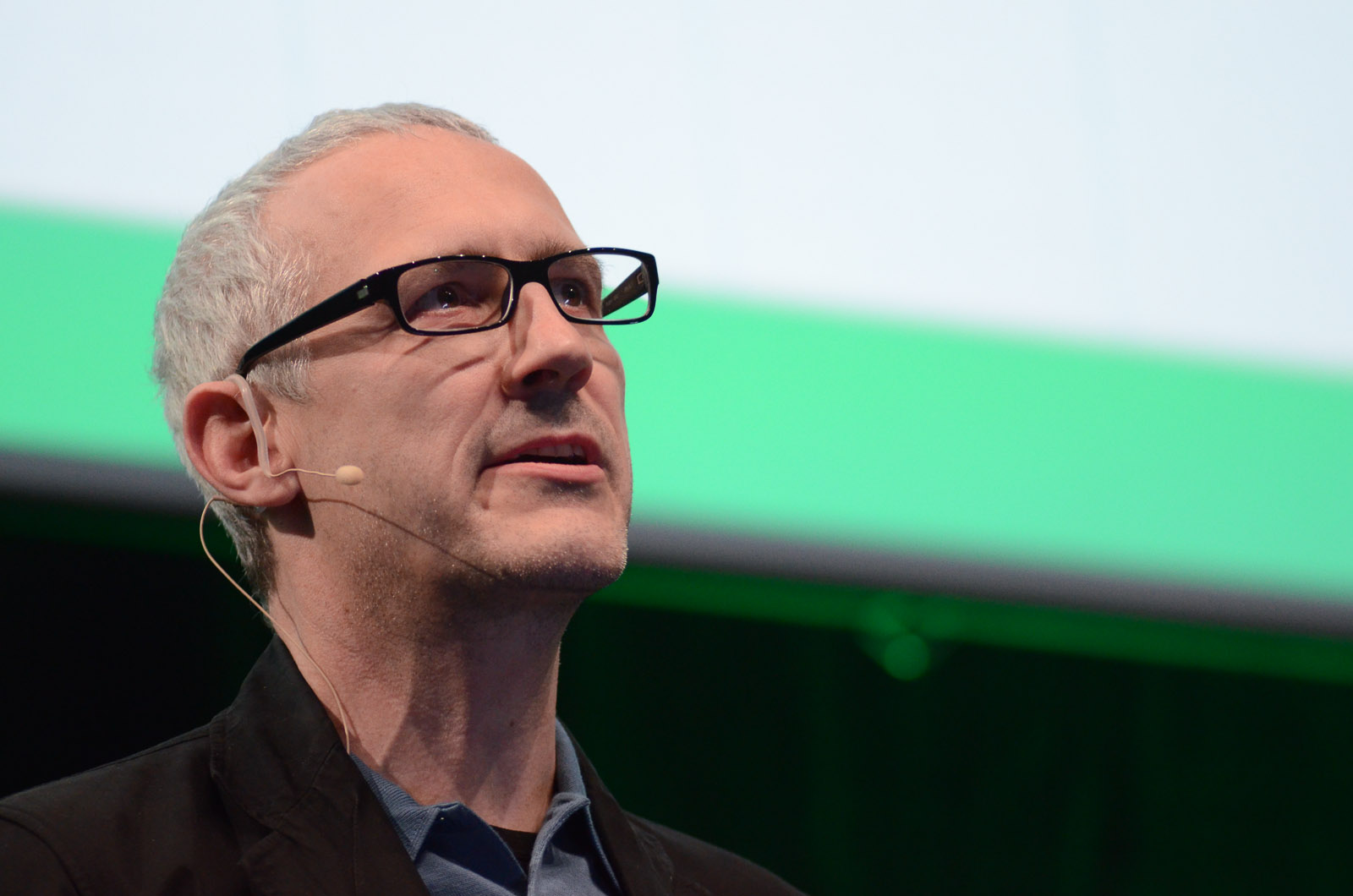 Anthony Dunne by Ivo Näpflin